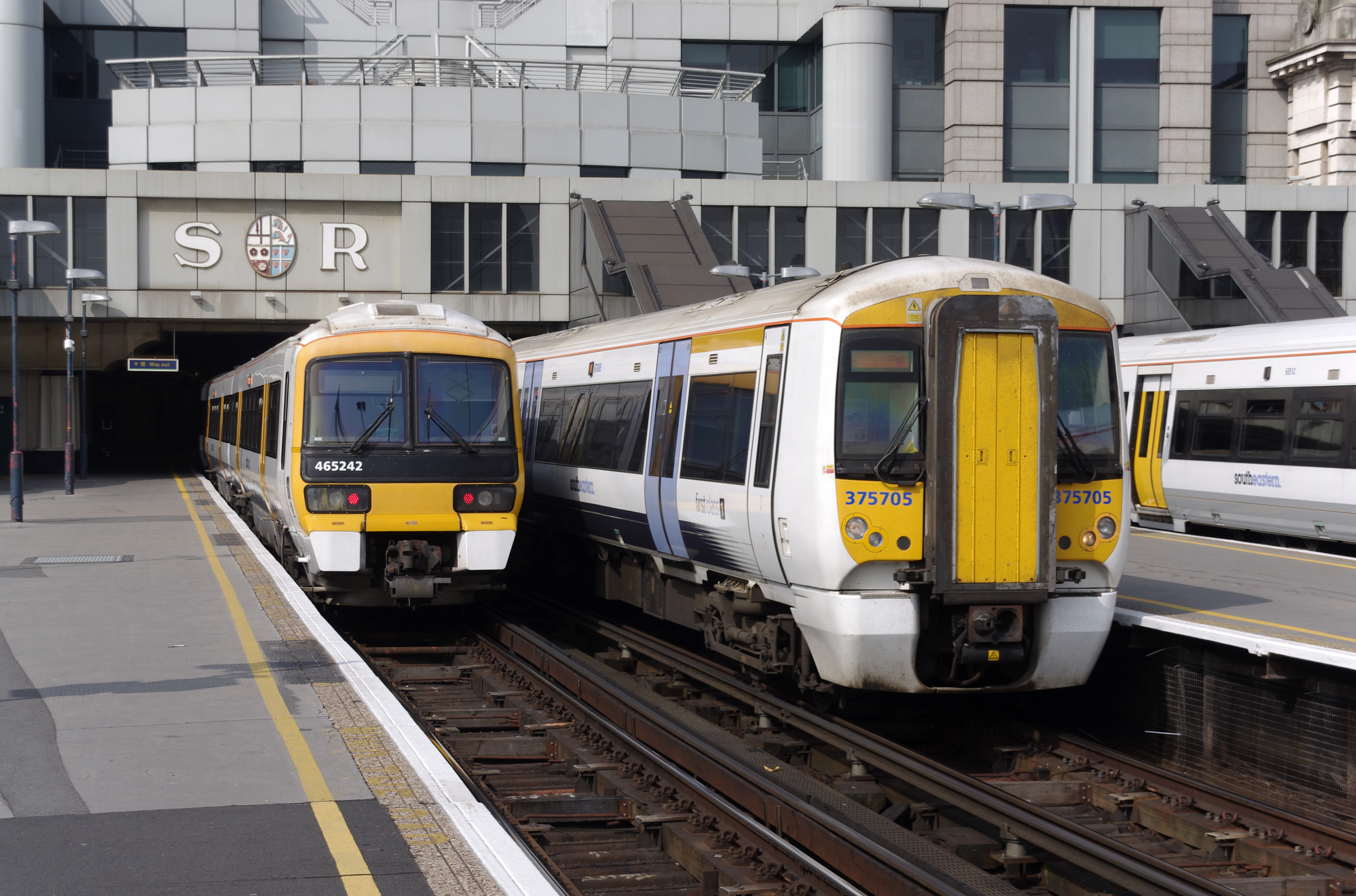 SouthEastern Networker EMU 465242 stands beside Electrostar EMU 375705 at Charing Cross, waiting for departure to Sevenoaks.